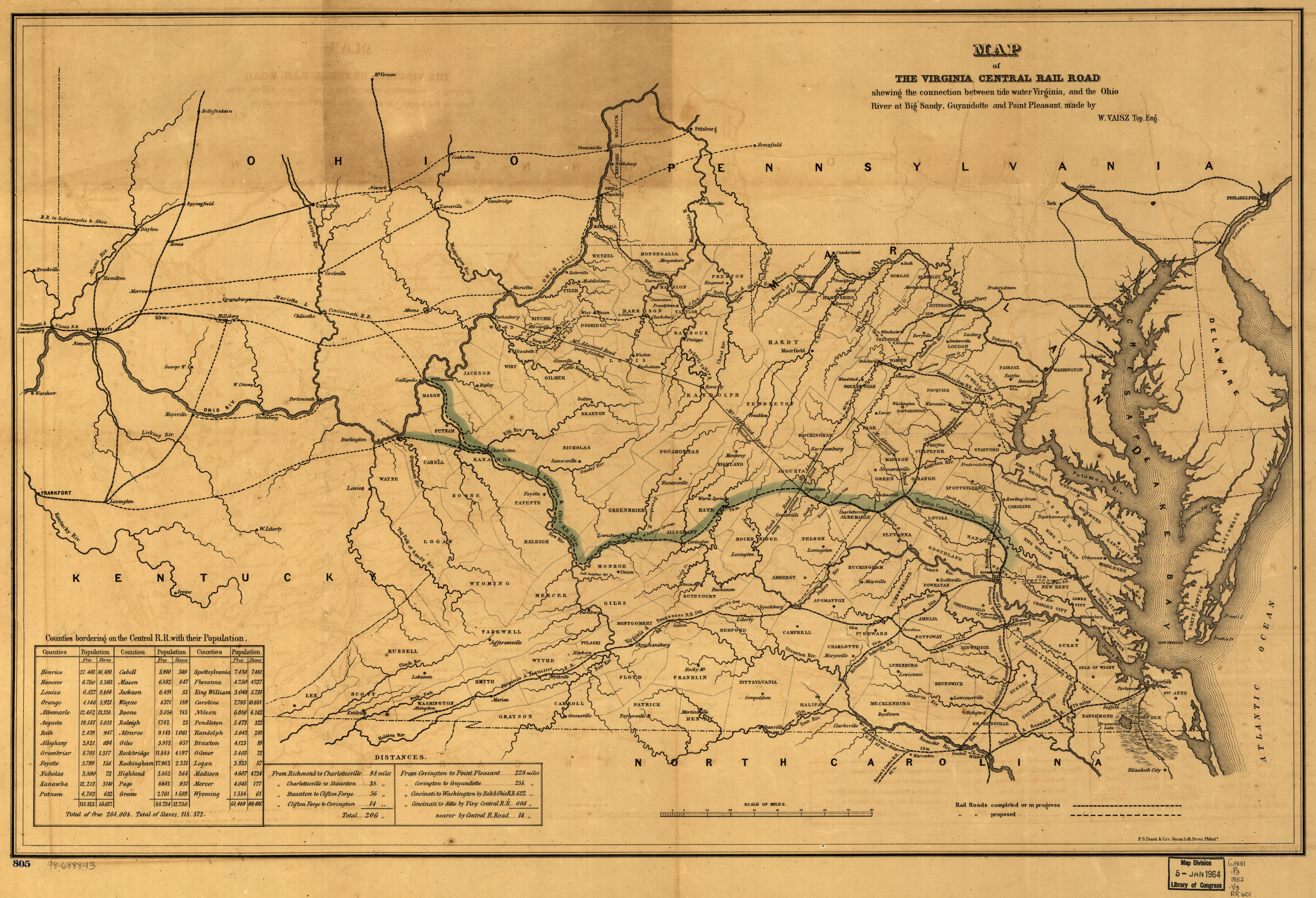 Map showing the constructed and planned portions of the Virginia Central Railroad as well as the planned Covington and Ohio Railroad.